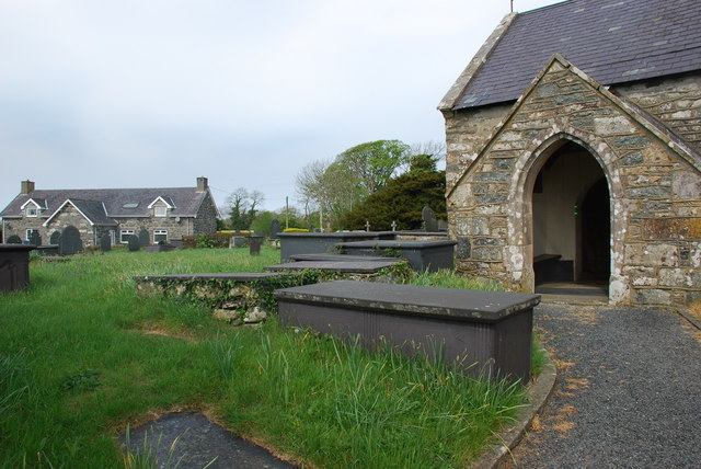 Eglwys, mynwent ac hen ysgol Llanarmon Church, churchyard and old school